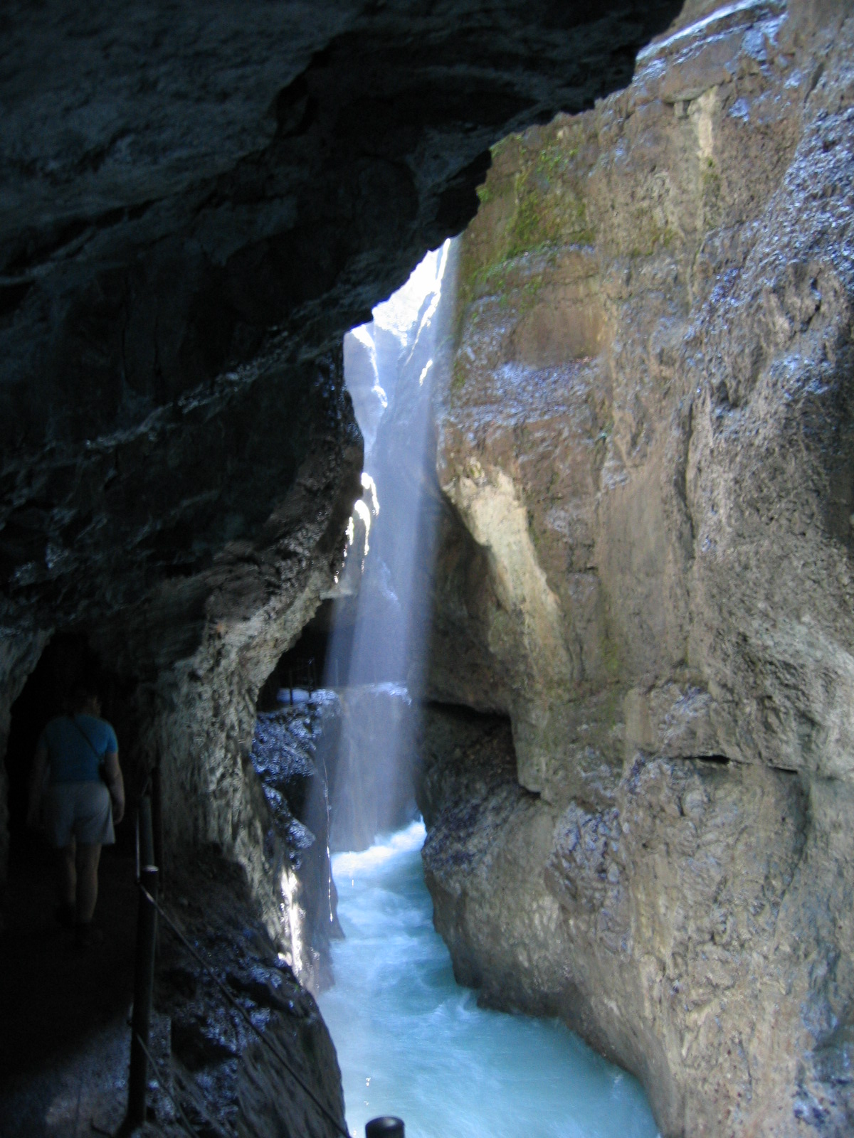 The sun shining on the Partnach in the Partnachklamm